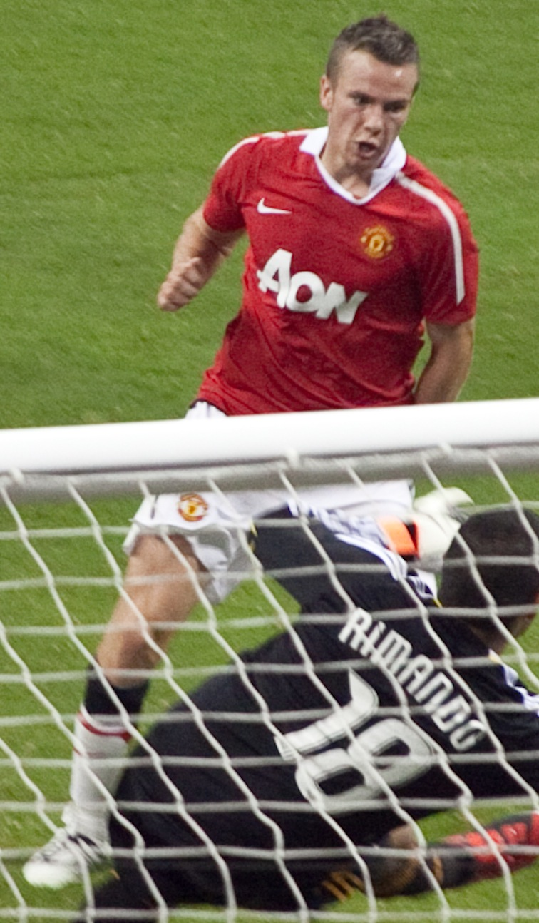 Tom Cleverley scoring for Manchester United vs MLS All-Stars This file has been extracted from another file: Tom Cleverley goal vs MLS All-Stars.jpg